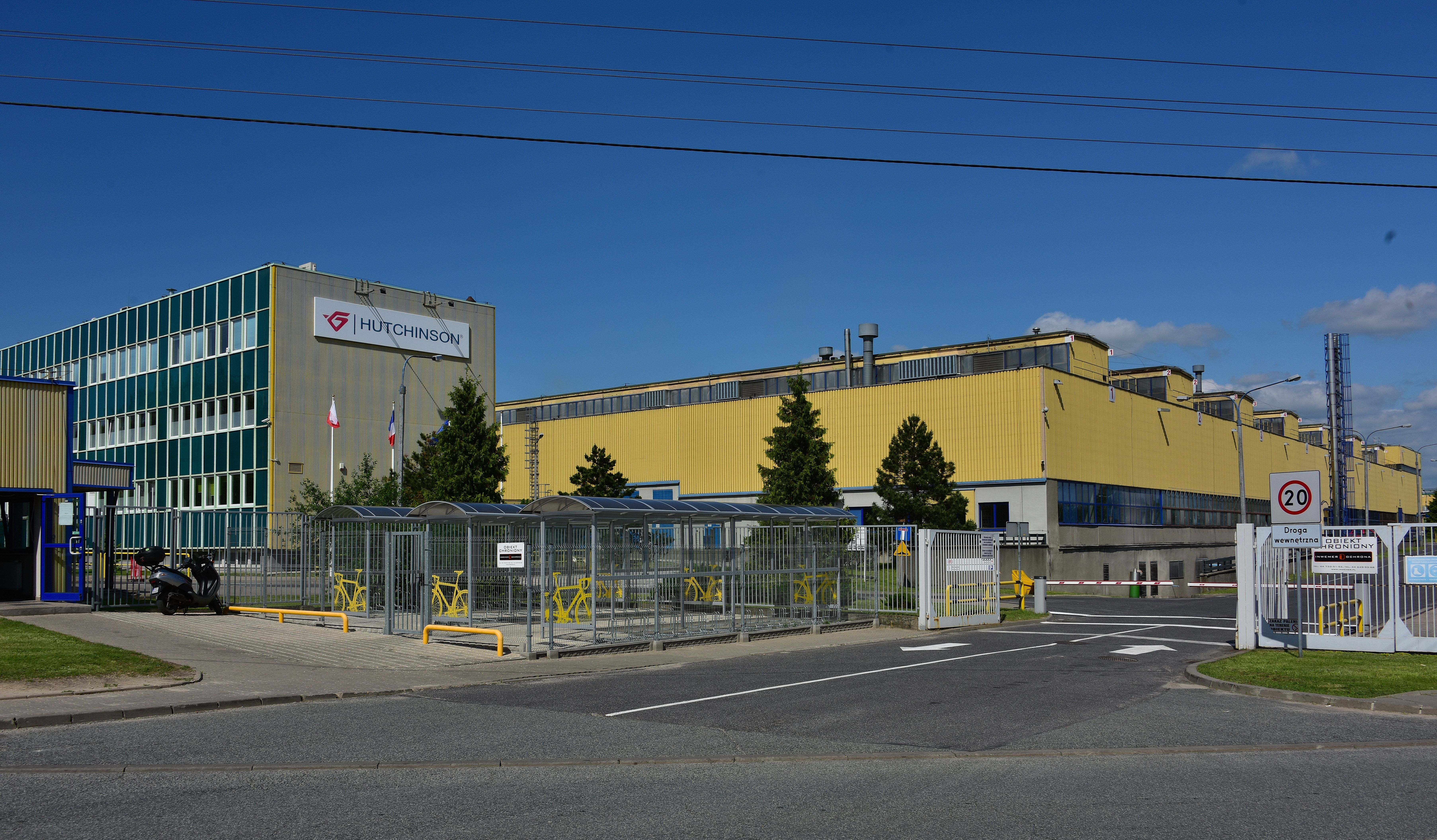 A Hutchinson Poland plant at 130 Kurczaki Street in Łódź, Poland